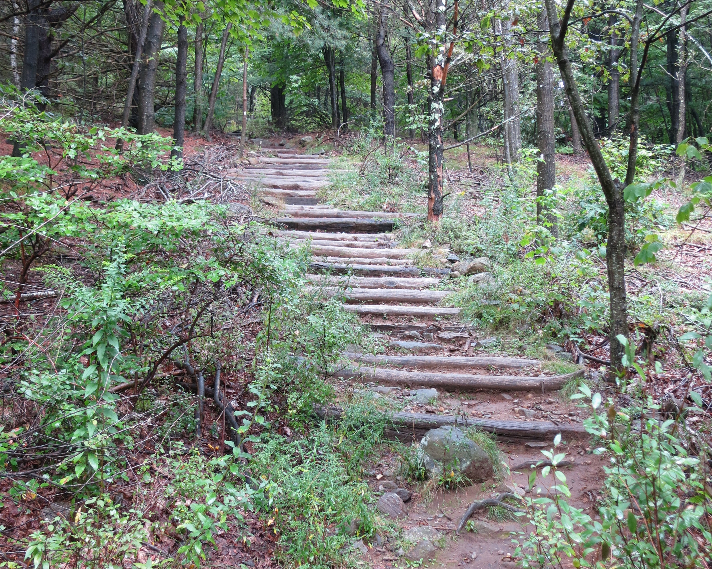 Well maintained hiking trail